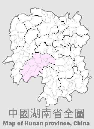 Maps of Hunana Province of China